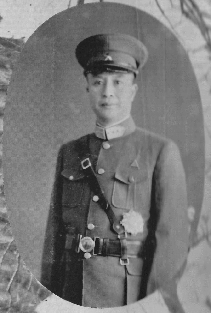 Yin Rugeng (1885-1947)